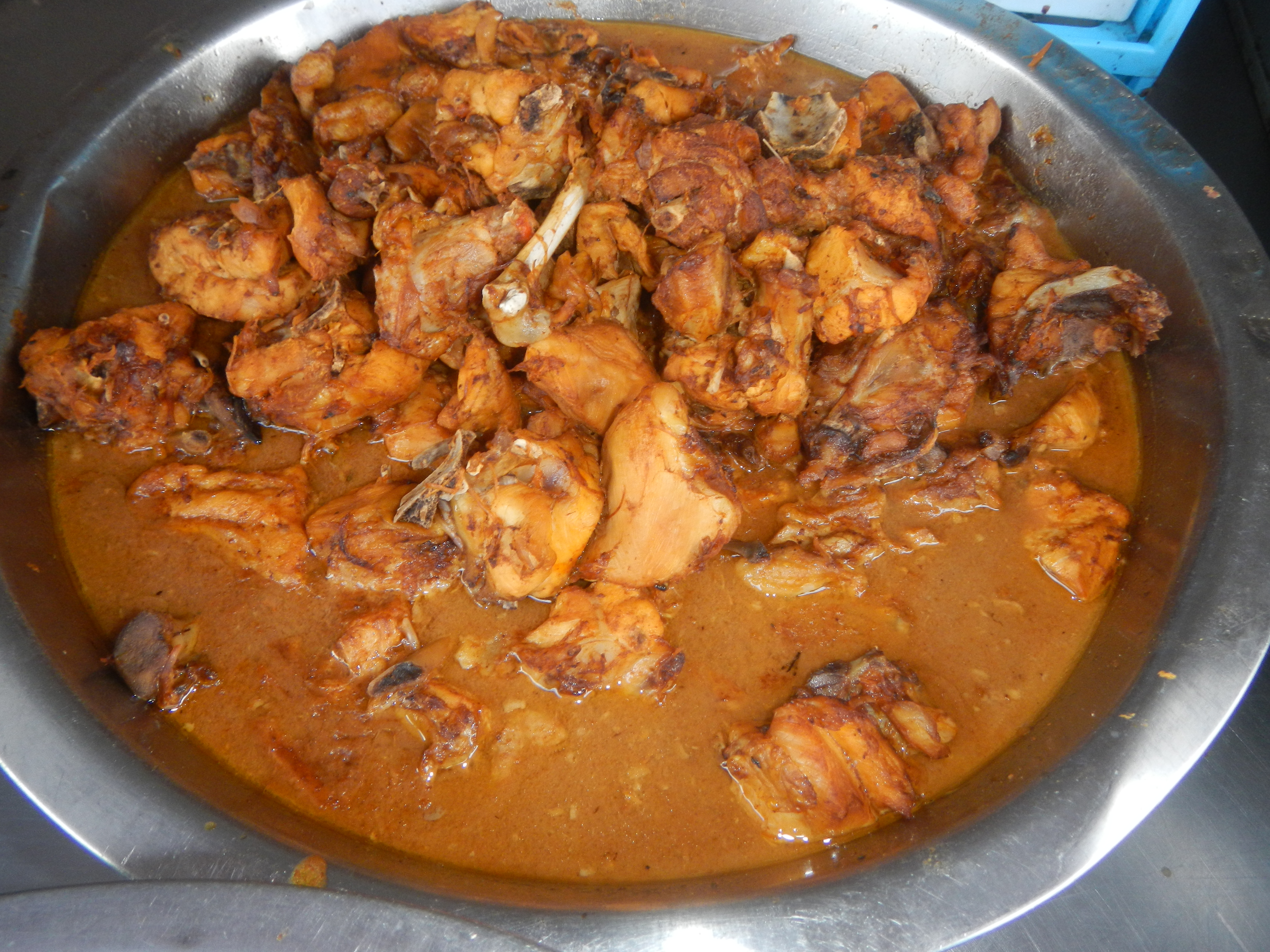 Paralaya (Poblacion), Candaba, Pampanga Public Market; in Barangays Buas 15°5'47"N 120°49'27"E Buas (Poblacion), Paralaya (Poblacion), beside San Agustin (Poblacion) Candaba, Pampanga (from the San Luis, Pampanga Welcome arch (from Candaba, Pampanga) along the Candaba-San Luis, Pampanga Road of the San Luis-Candaba, Pampanga-Baliuag, Bulacan Road (Barangays Pulong Palazan, Mangga, Dalayap, Tenejero, Talang and Barit section) accessed from and along Baliuag, Bulacan-Candaba, Pampanga Road from Maharlika Highway (Cagayan Valley Road, Baliuag-Pulilan-Guiguinto, Bulacan) Pan-Philippine Highway, also known as the Maharlika "Nobility/freeman" Highway or Asian Highway 26, Cagayan Valley Road).